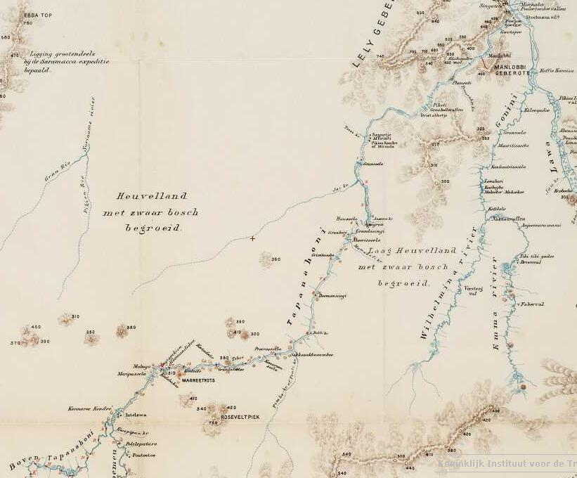 Tapanahoni river, 1905 Publisher [Leiden]: Brill Kaart behoort bij het boek: Verslag der Tapanahoni-expeditie / door A. Franssen Herderschee. - Overdruk uit Tijdschrift van het Koninklijk Nederlandsch aardrijkskundig genootschap ; 2e serie, dl. XXII(1905)2. - Beide aanwezig in de Bibliotheek Pub. year 1905